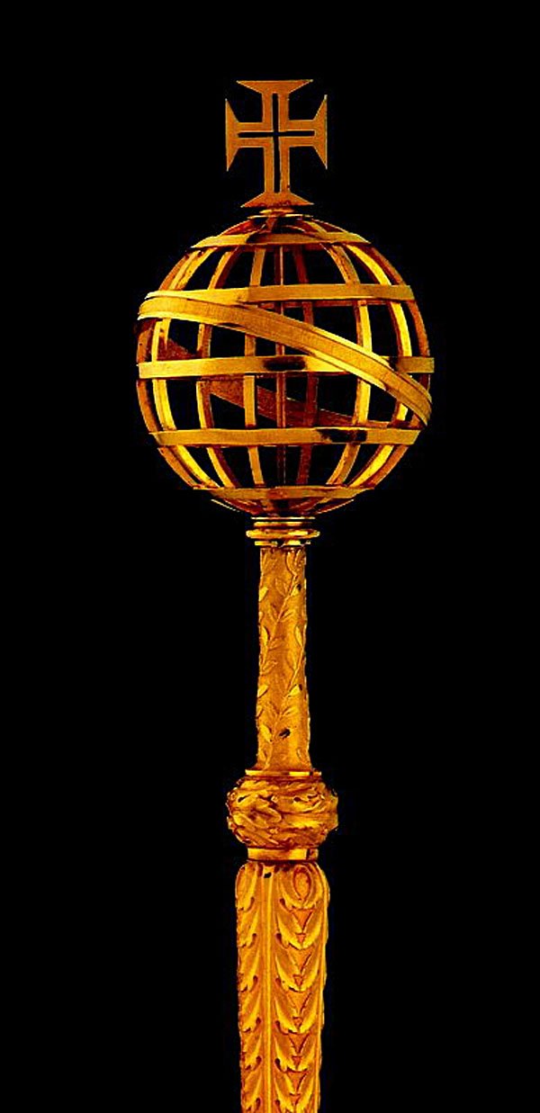 A Piece of the Portuguese Crown Jewels